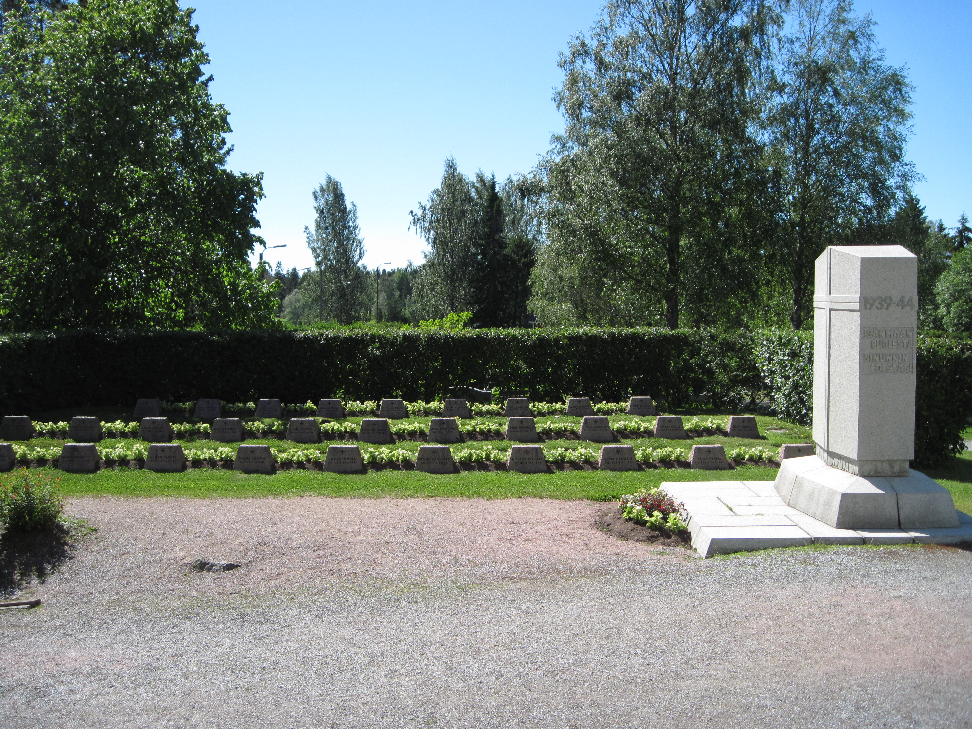 Military cemetary at Sammaljoki Church in Sastamala, Finland